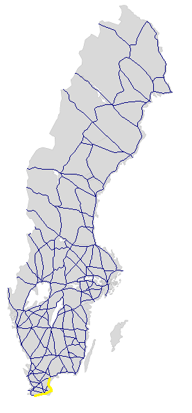 Sweden's network of National routes (roads), cities and road numbers not shown. Based on a blank map. For info on how to easiest edit the map see SWE-Map Documentation